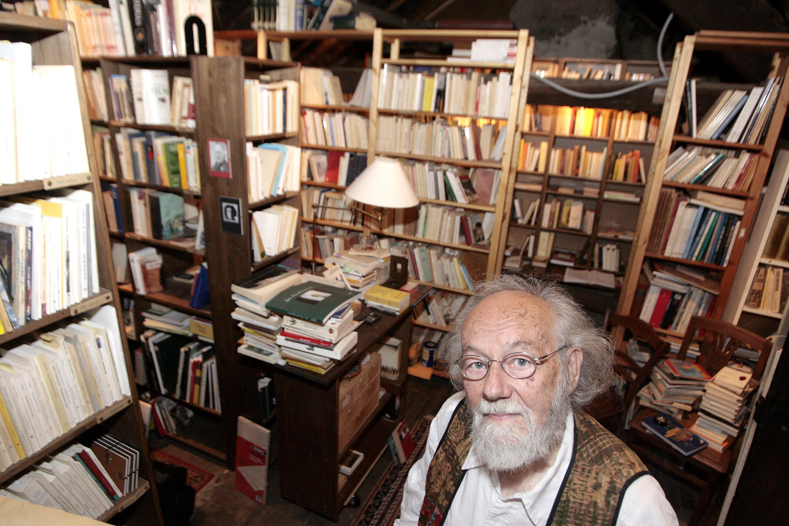 Lambert Schlechter, Luxembourg author, Eschweiler, April 2009.